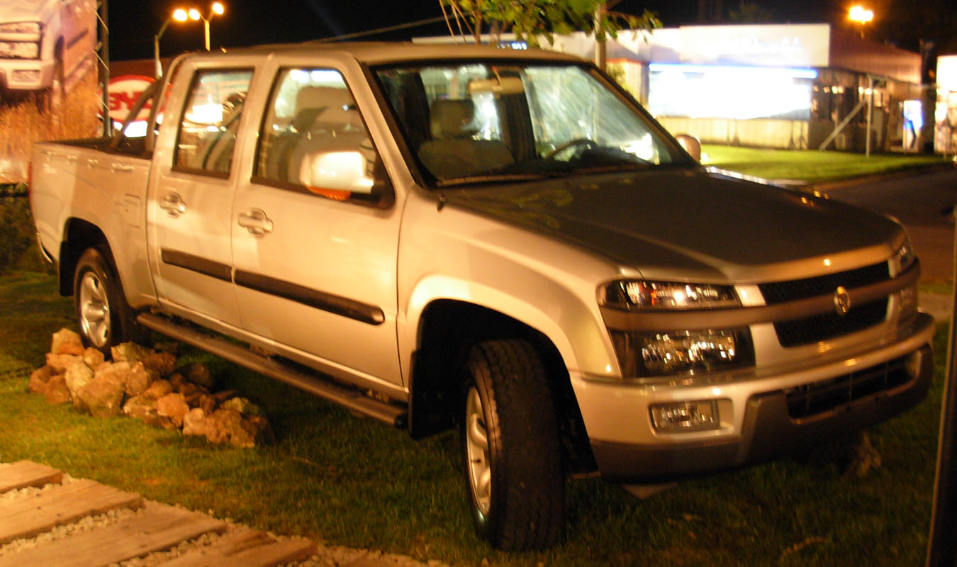 Effa Plutus at the 2012 Montevideo Motor Show.